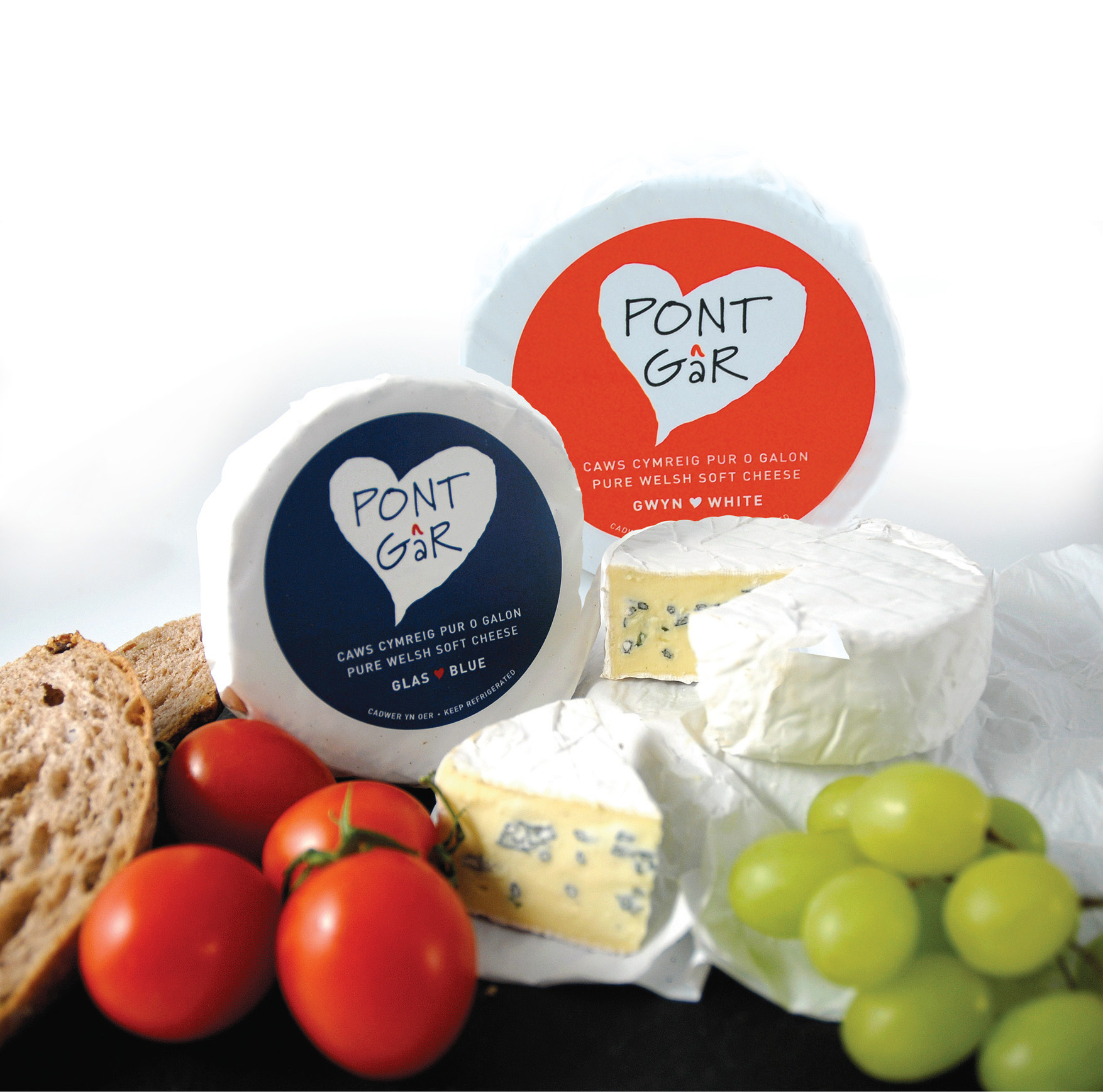 Pont Gar White and Blue varieties, shown with grapes, tomatoes and bread